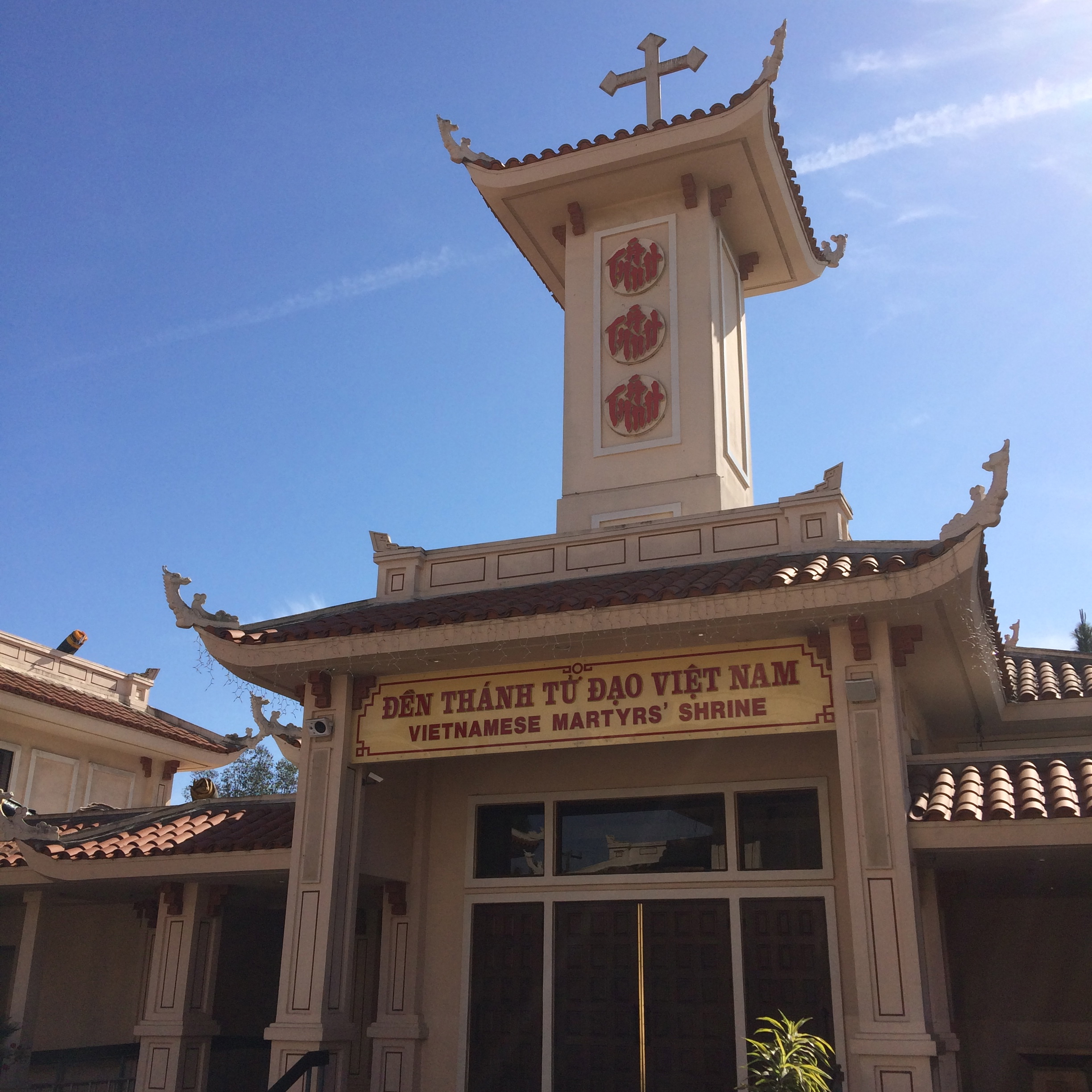 Vietnamese Martyrs' Shrine